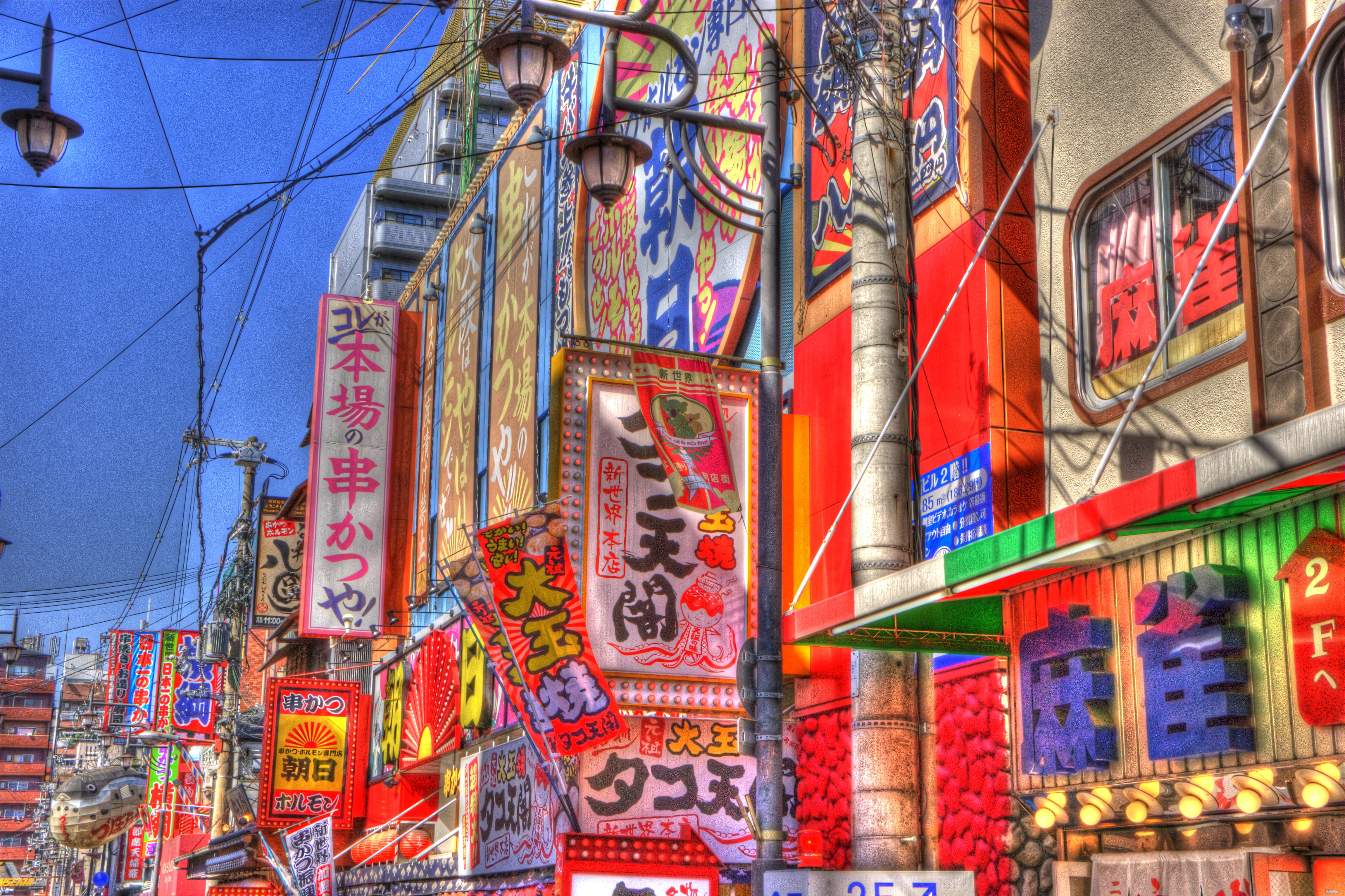 Osaka